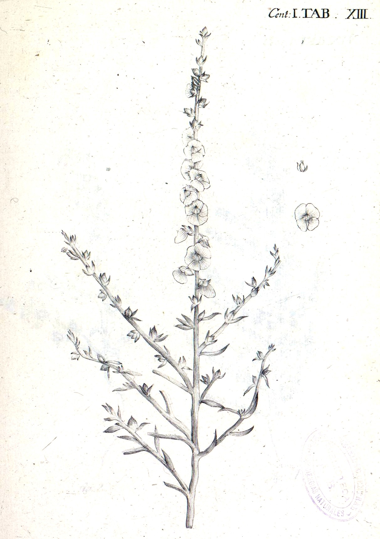 Halothamnus glaucus (M.Bieb.) Botsch., as Kali fruticosum spicatum, from Buxbaum, J.C. 1728. Plantarum minus cognitarum Centuria I: p. 8. tab. 13. This is the first known illustration of a plant of the genus Halothamnus.